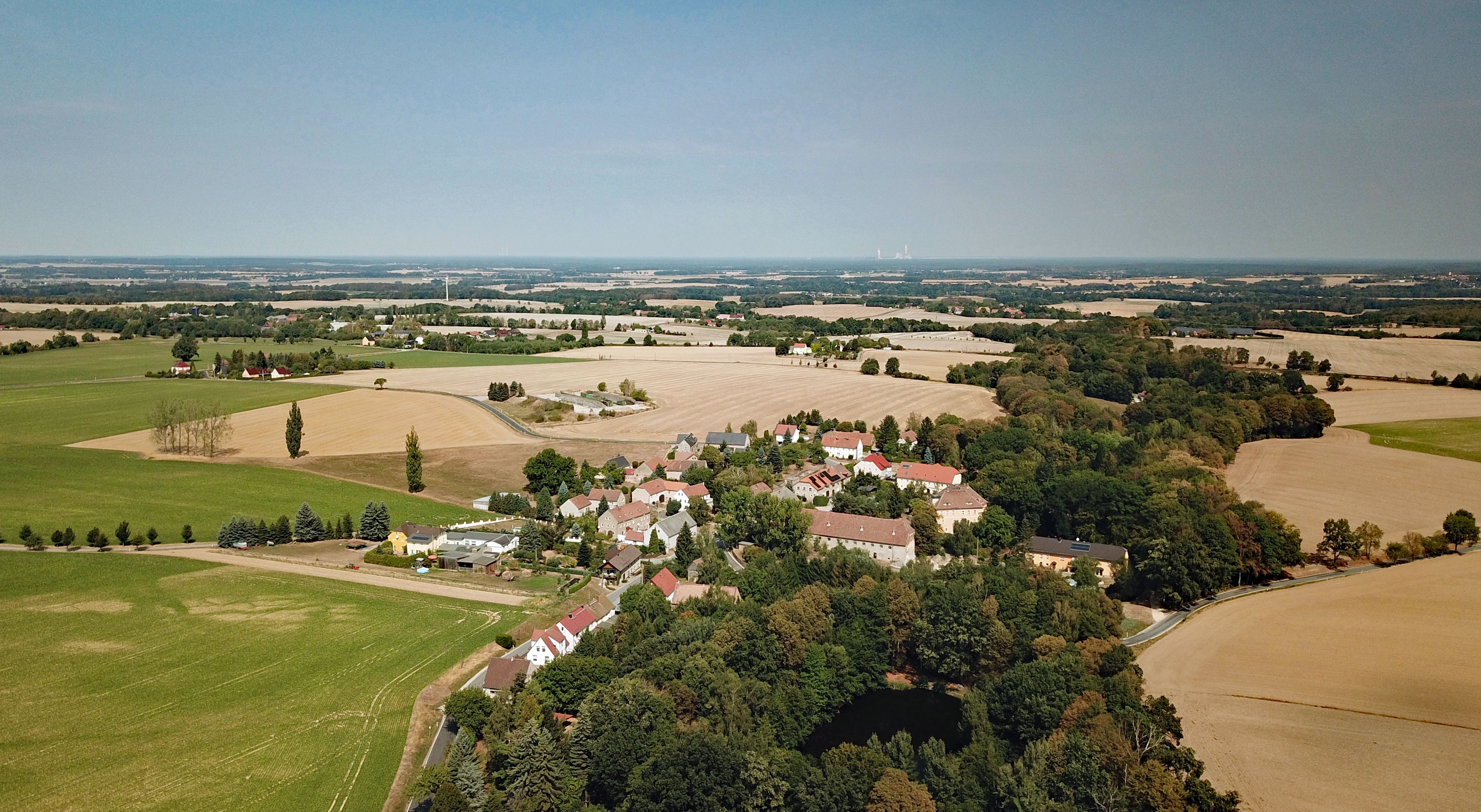 Kuppritz (Hochkirch, Saxony, Germany) Hornjoserbsce: Powětrowy wobraz Koporc